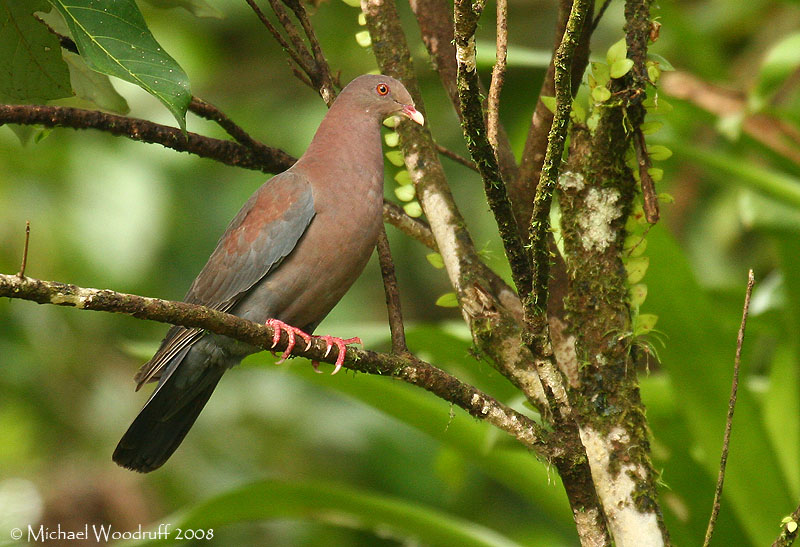 Red-billed Pigeon, Costa Rica Caribbean lowlands 15 July 2008